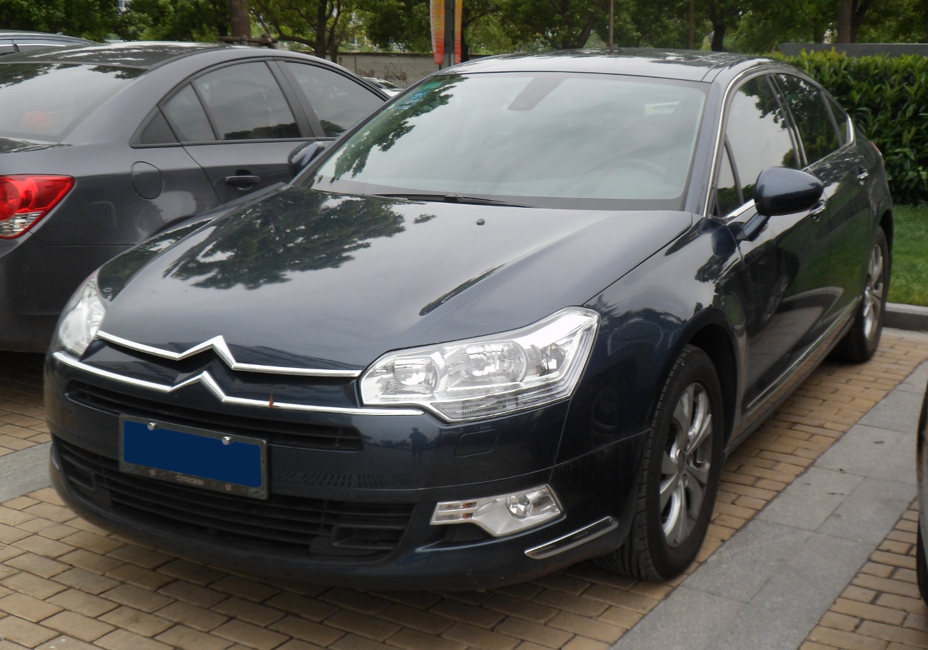 Citroën C5 II photographed in Shanghai, China.